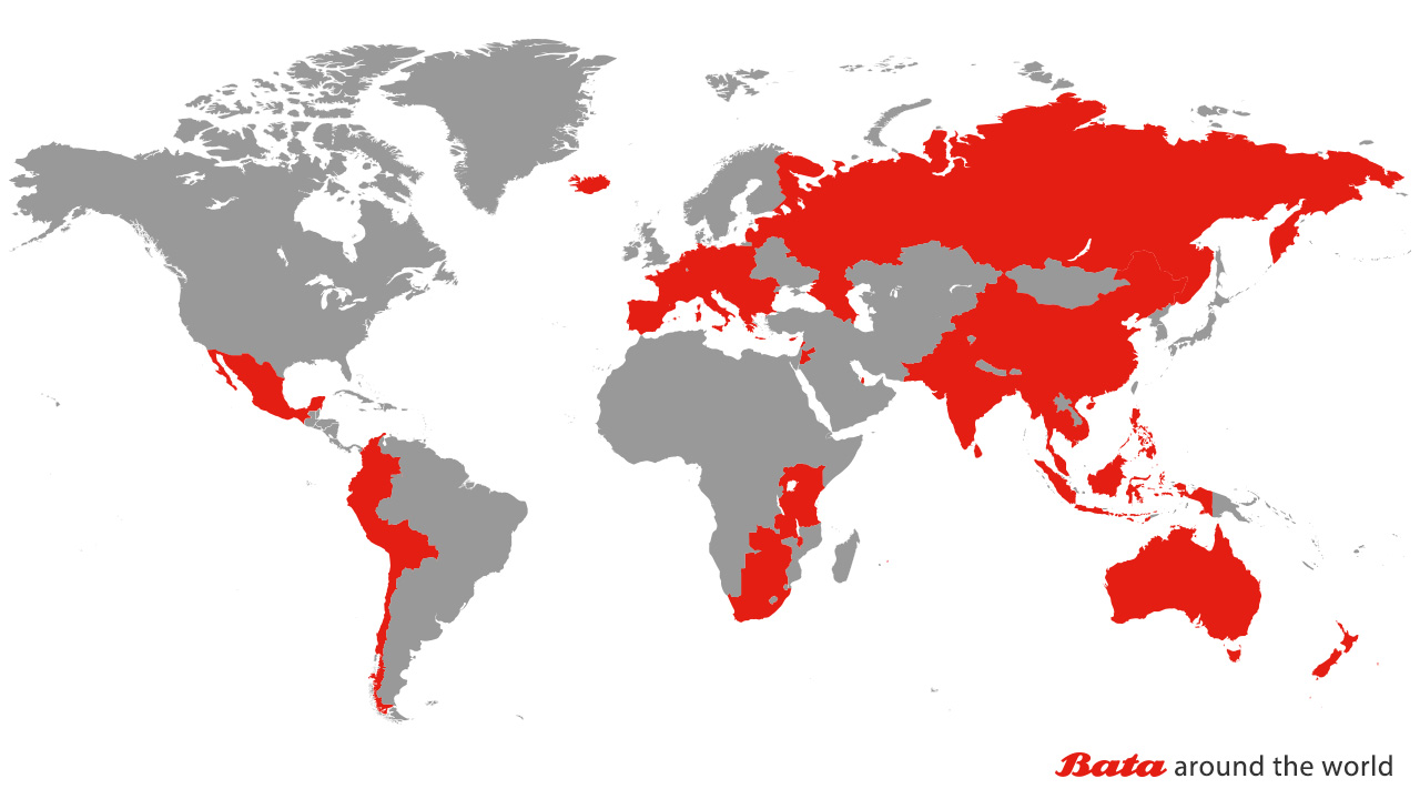 Map of Bata store presence around the world